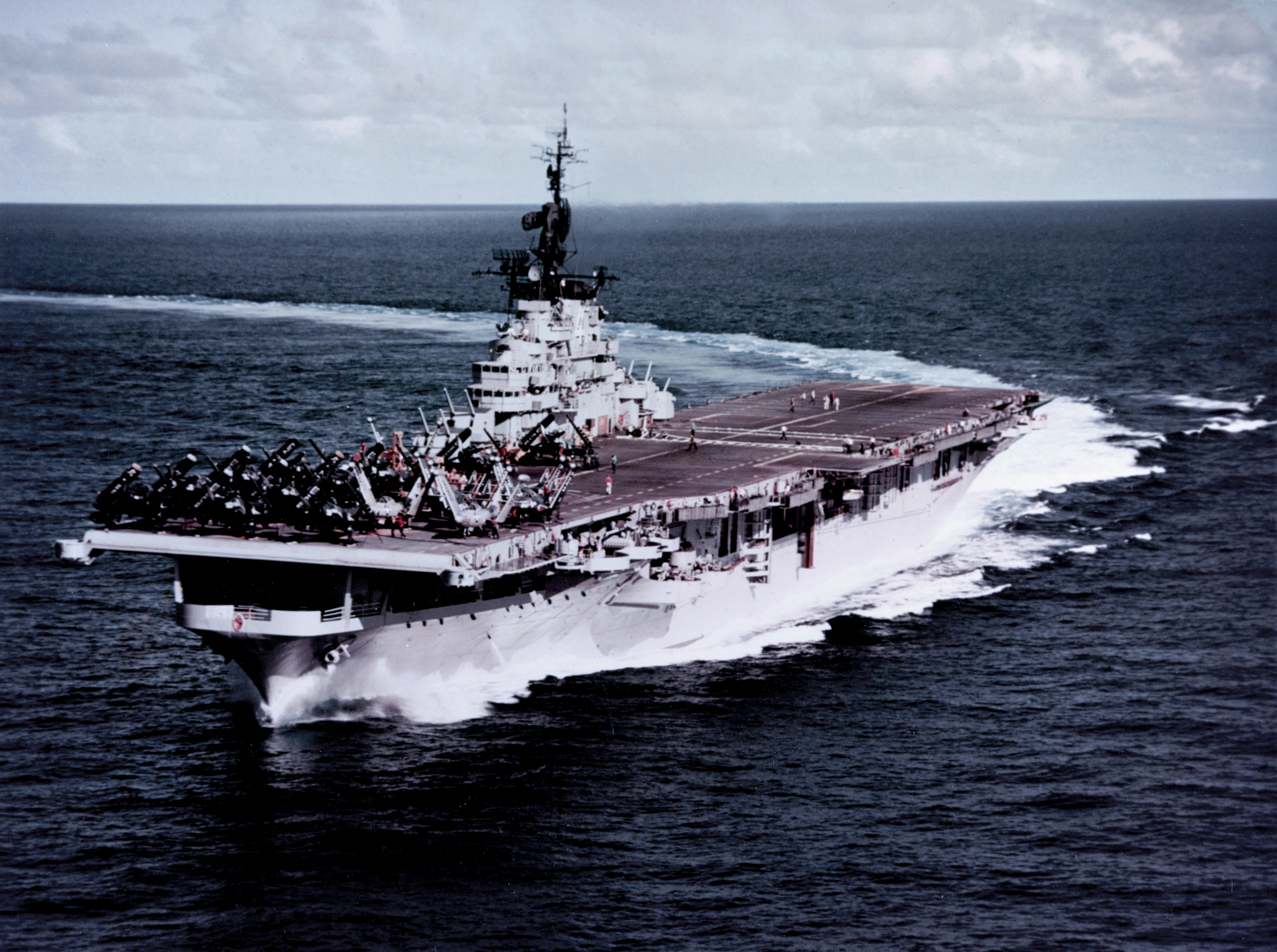 The U.S. Navy aircraft carrier USS Philippine Sea (CVA-47) makes a sharp turn to starboard, while steaming in the Western Pacific with the U.S. Seventh Fleet, 9 July 1955. Philippine Sea, with assigned Air Task Group 2 (ATG-2), was deployed to the Western Pacific from 1 April to 23 November 1955.